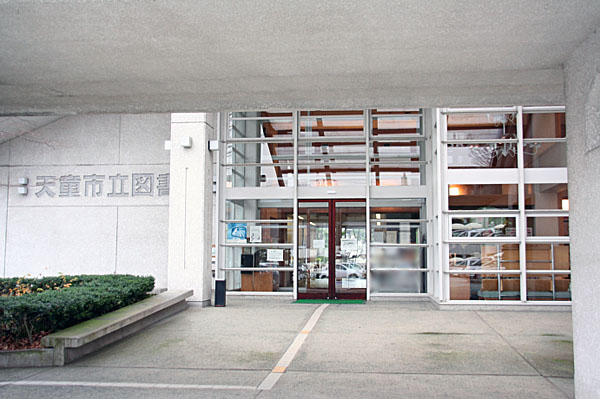 Tendō Civic Library (Tendō City, Yamagata Prefecture, Japan.)